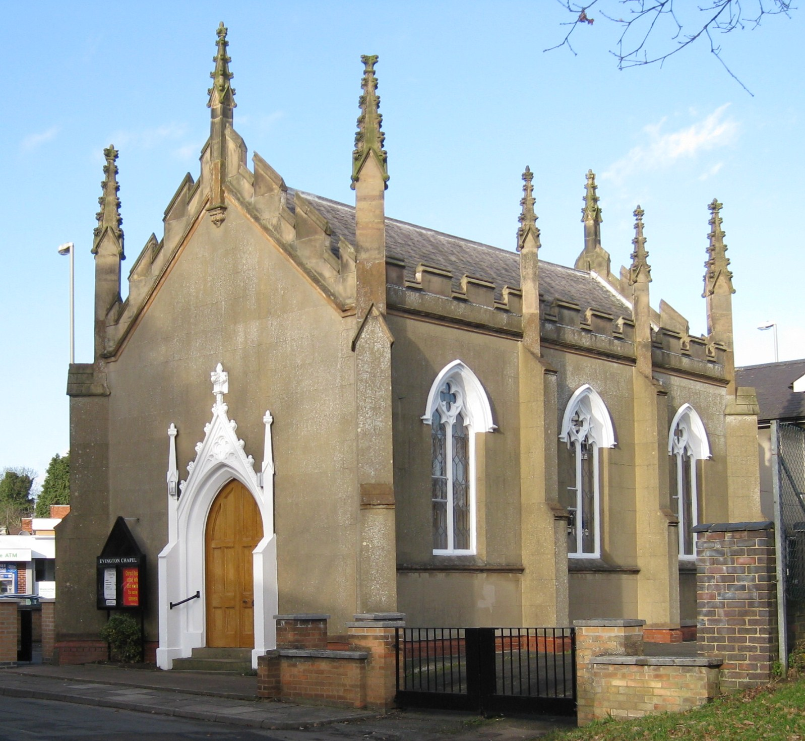 Evington Chapel, High Street, Evington, Leicester, seen from the south